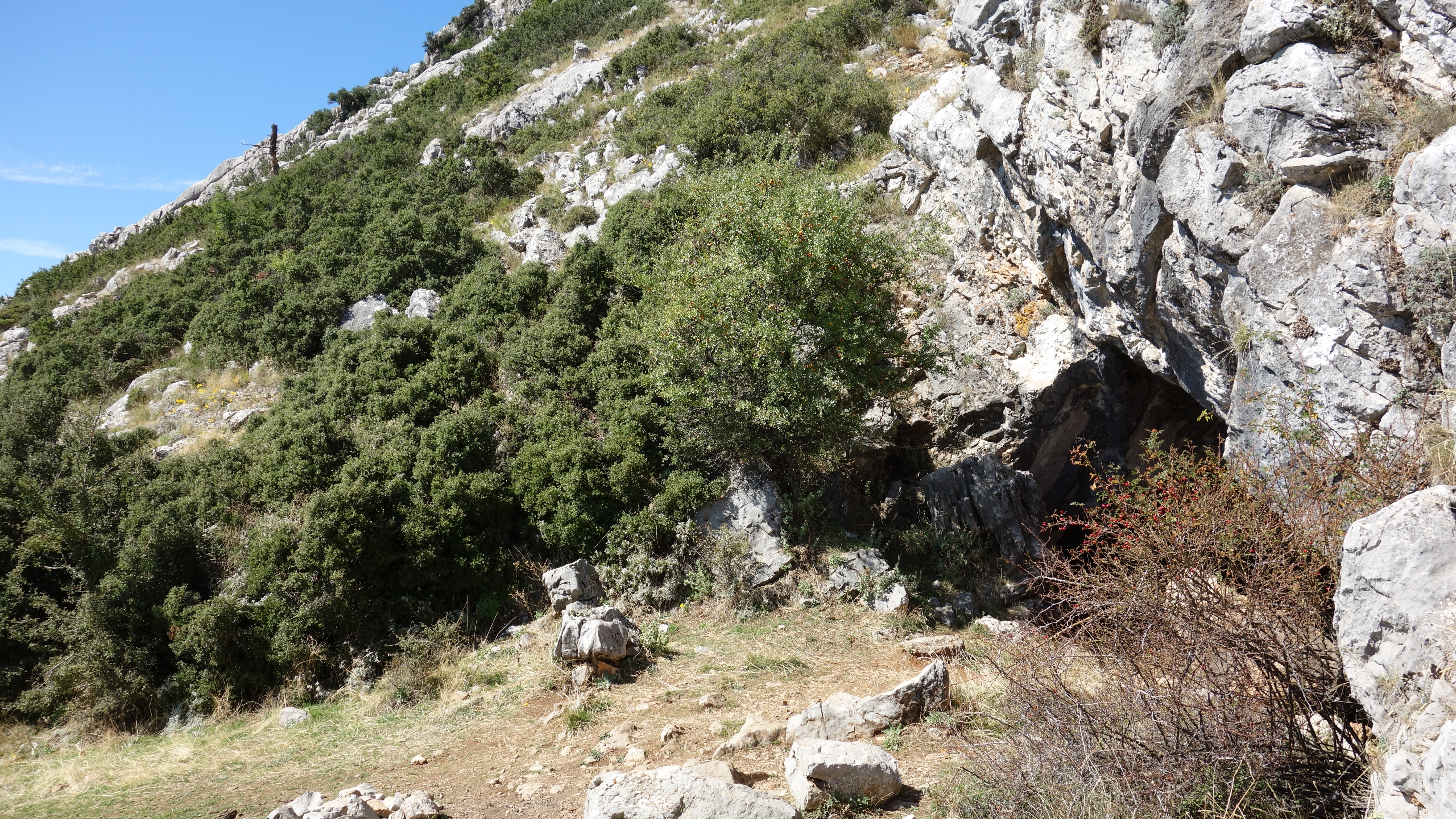 Corykian Cave entrance